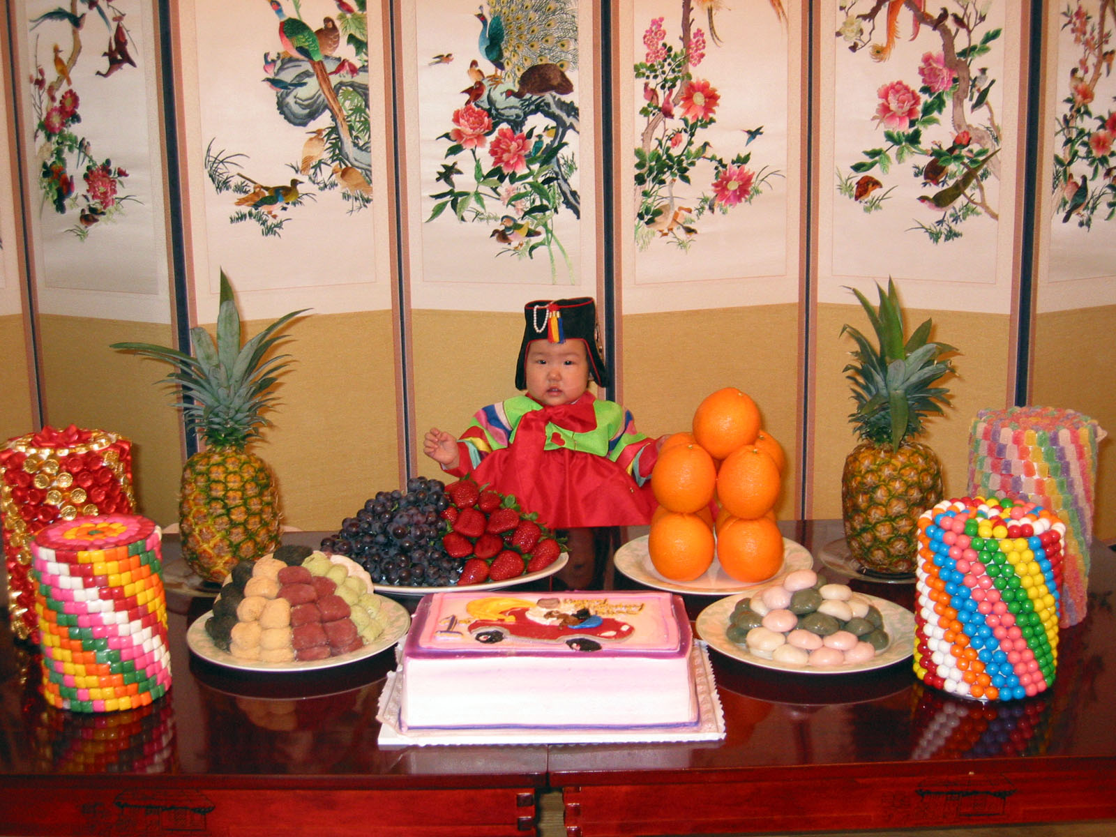 Dol, Korean traditional way of celebrating a birthday of one-year old baby.